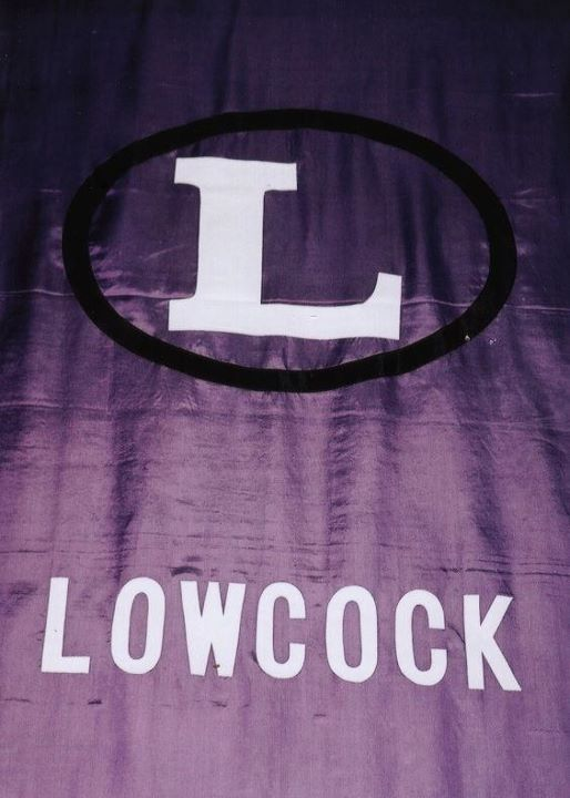 Lowcock House Banner